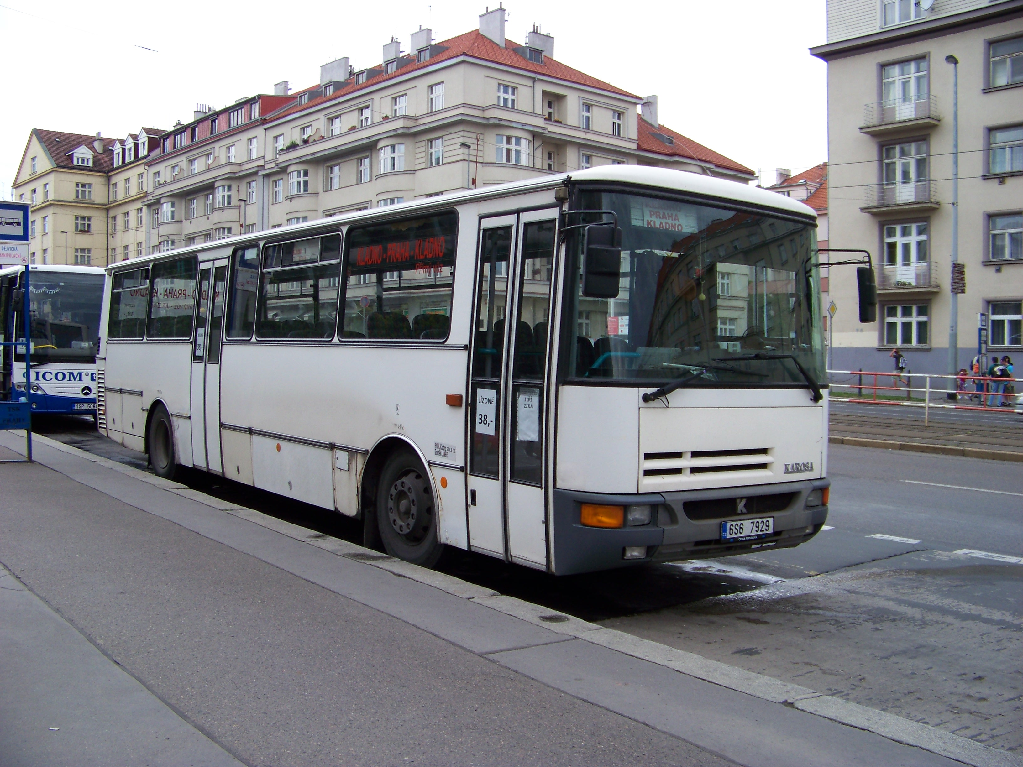 Prague-Dejvice, the Czech Republic. Evropská street, bus stop Dejvická, a bus of Jiří Zíka. - OpenStreetMap(Info)